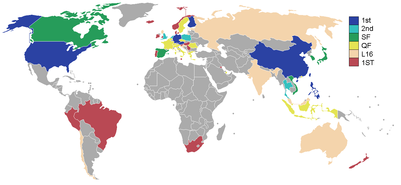 Best performances of countries at the World Cup of Pool.